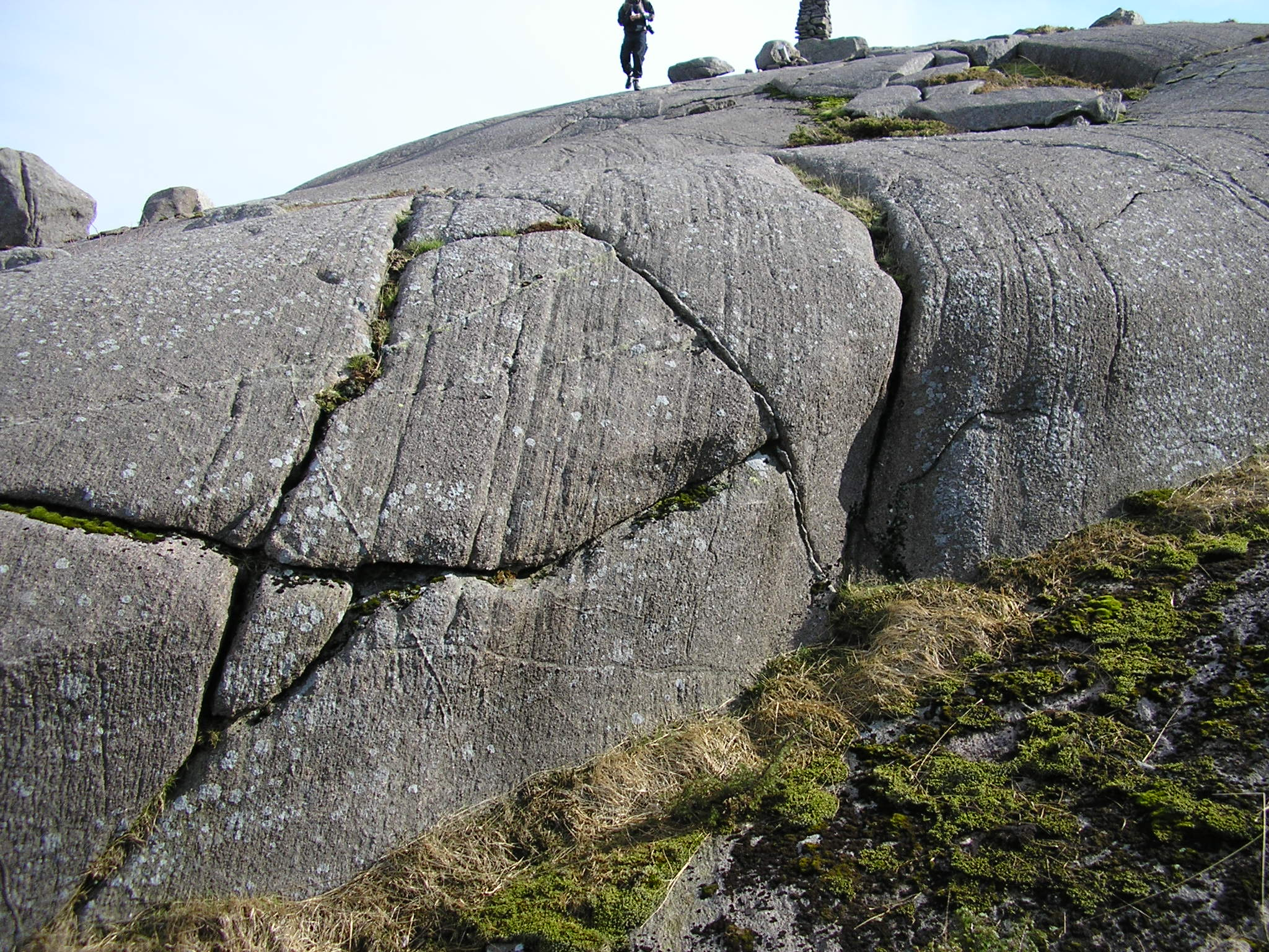 Primary igneous fabric in the Helleren anorthosite massif, Jibbeheia, Rogaland, Norway. This anorthosite is about 930 million years old. (Source of age information: The Rogaland Anorthosite Province).